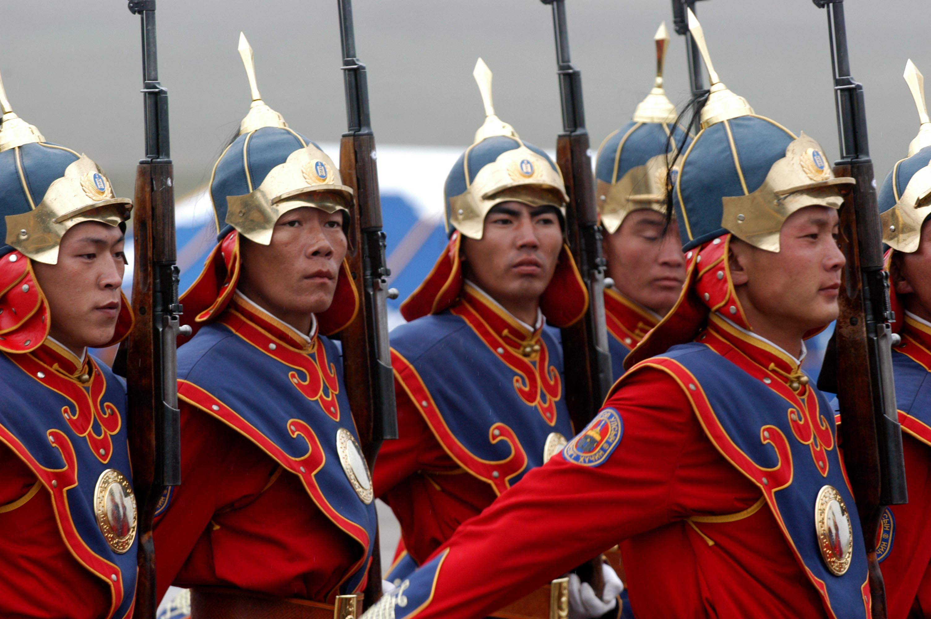 FIVE HILLS TRAINING CENTER, Mongolia (Aug. 1, 2007) â€“ Members of the Mongolian Armed Forces pass in review during the opening ceremony of exercise Khaan Quest 07 here Aug. 1. Approximately 1,000 multinational service members converged on the training center here for exercise Khaan Quest 07 to increase their peacekeeping abilities. (Official U. S. Marine Corps photo by Sgt. G. S. Thomas)